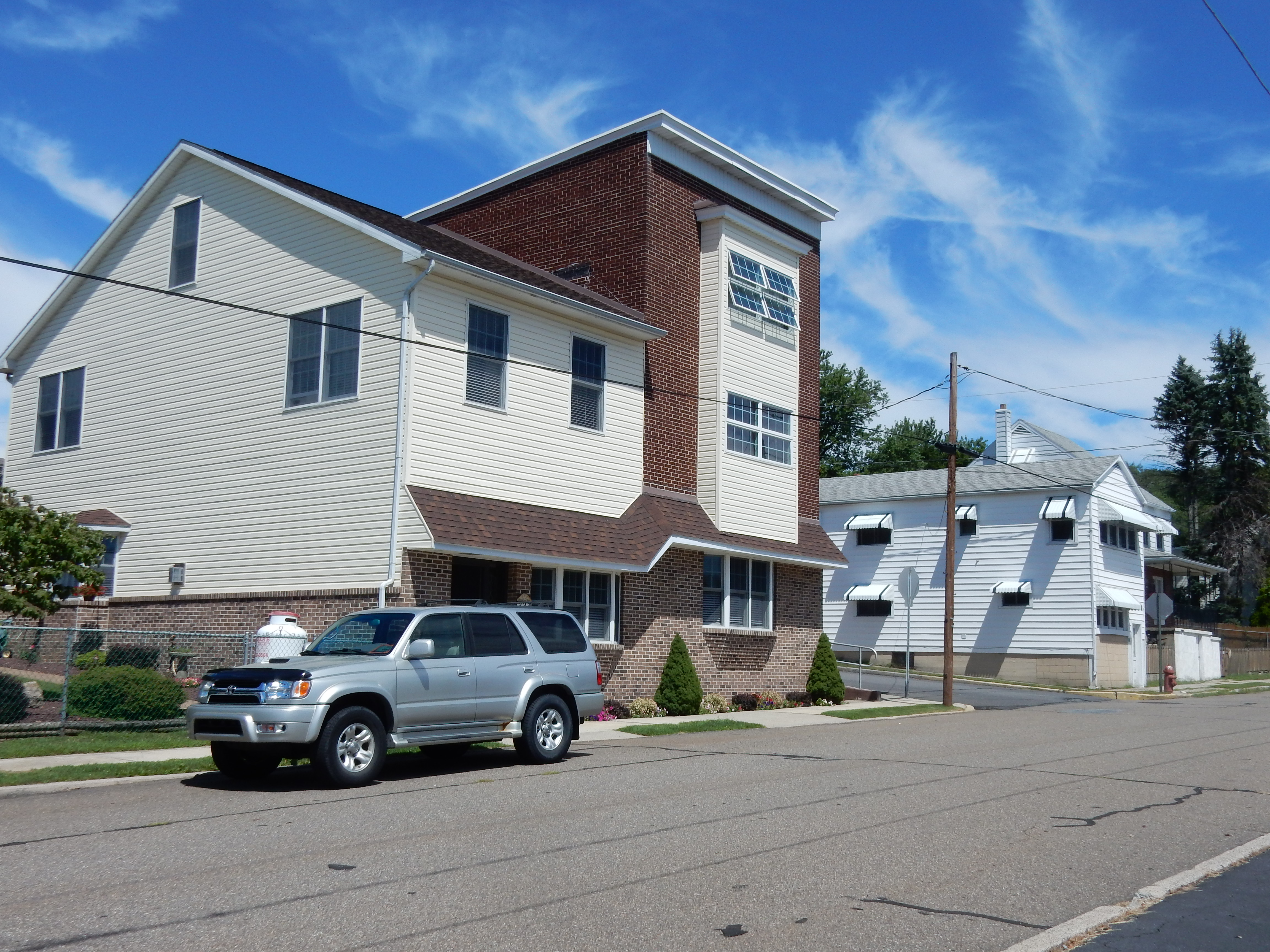 Main St., Seltzer, Norwegian Township, Schuylkill County, Pennsylvania. Looking east.